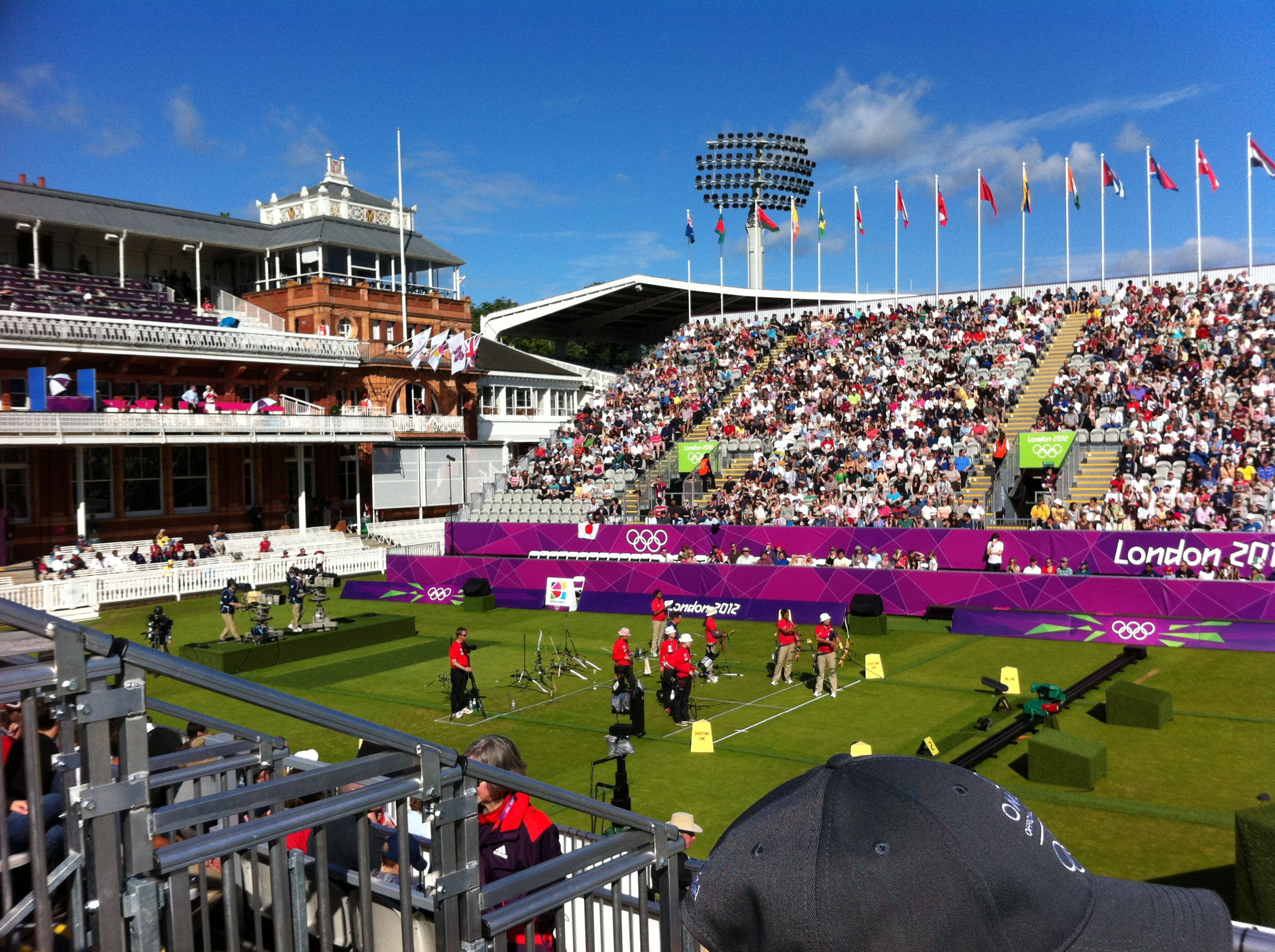 I took this photo at Lord's Cricket Ground at the London 2012 Olympics